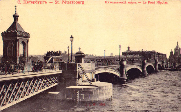 Blagoveshchensky Bridge in 1900s